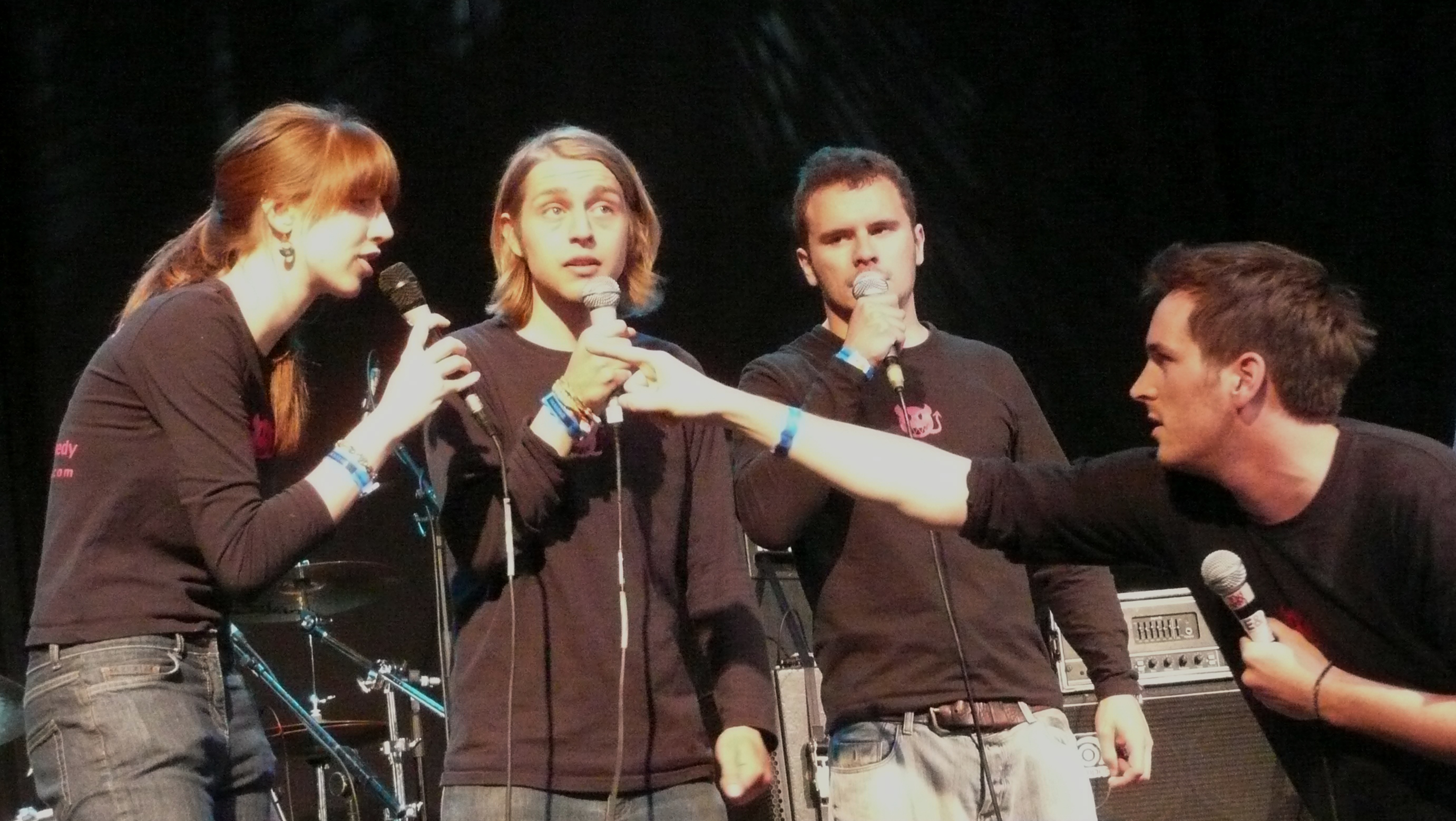 The Oxford Imps performing at the 2011 Wychwood Festival